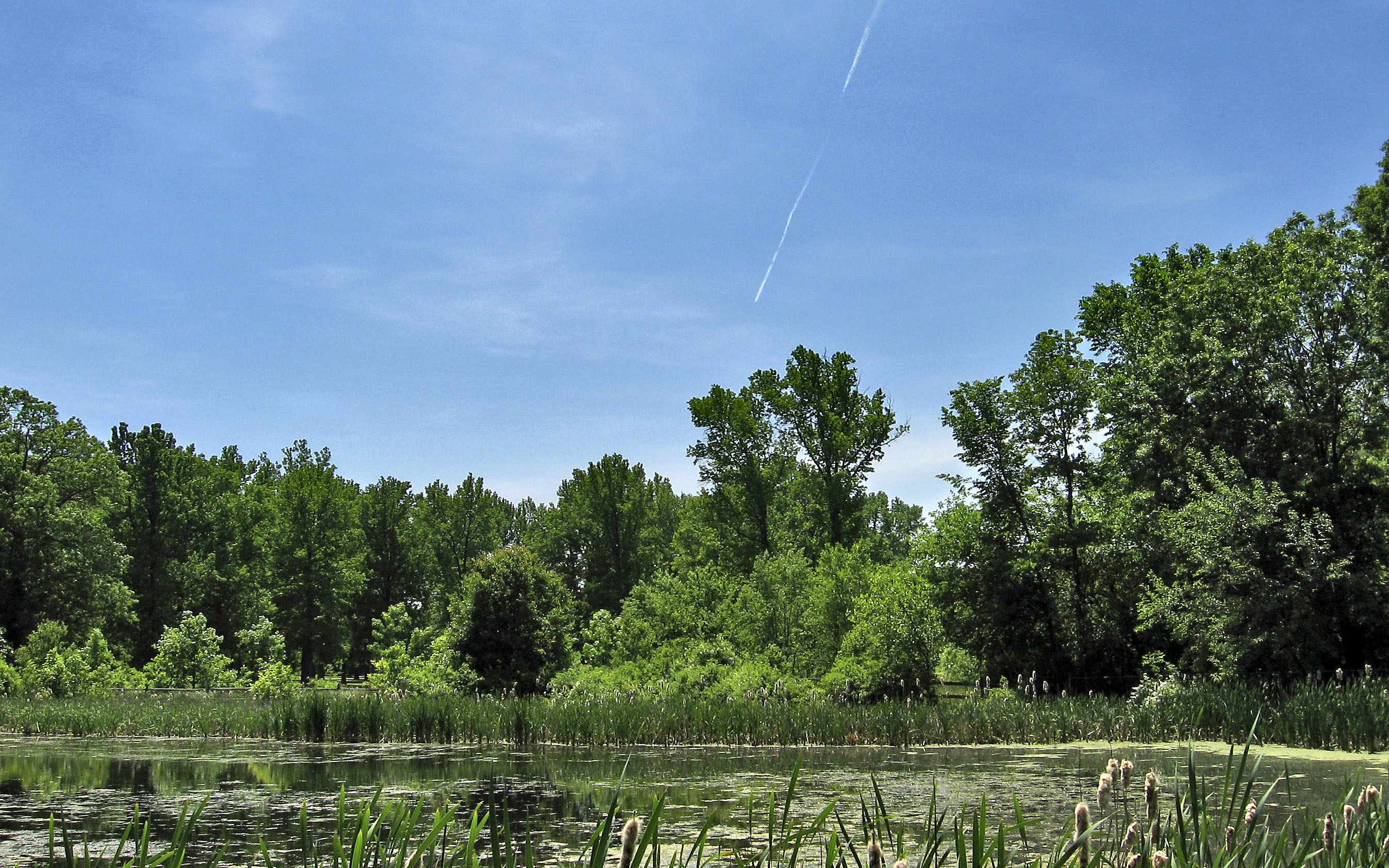 This is a picture of University Hills Park, in college Park, MD.